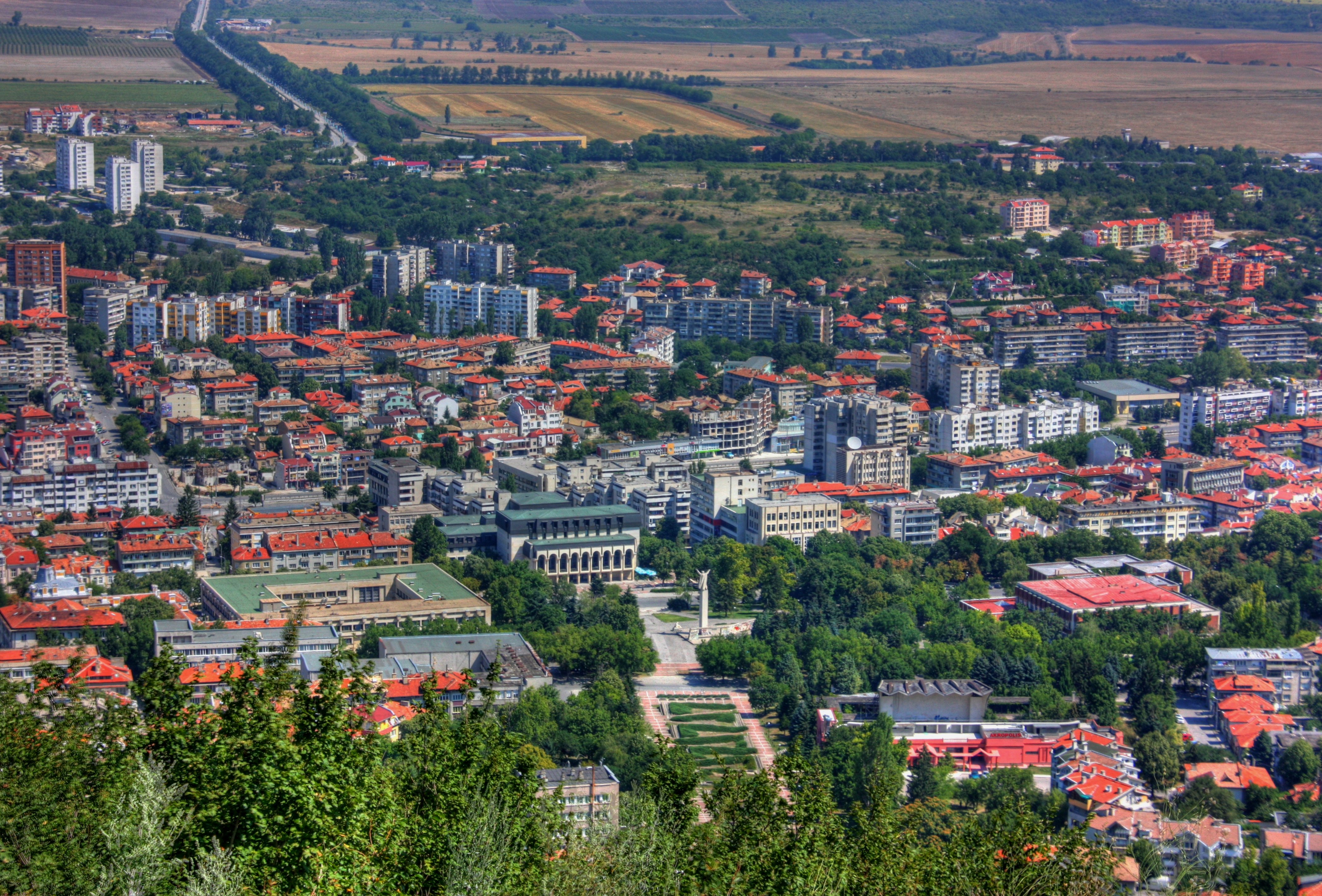 A view of Shumen, Bulgaria from the plateau.